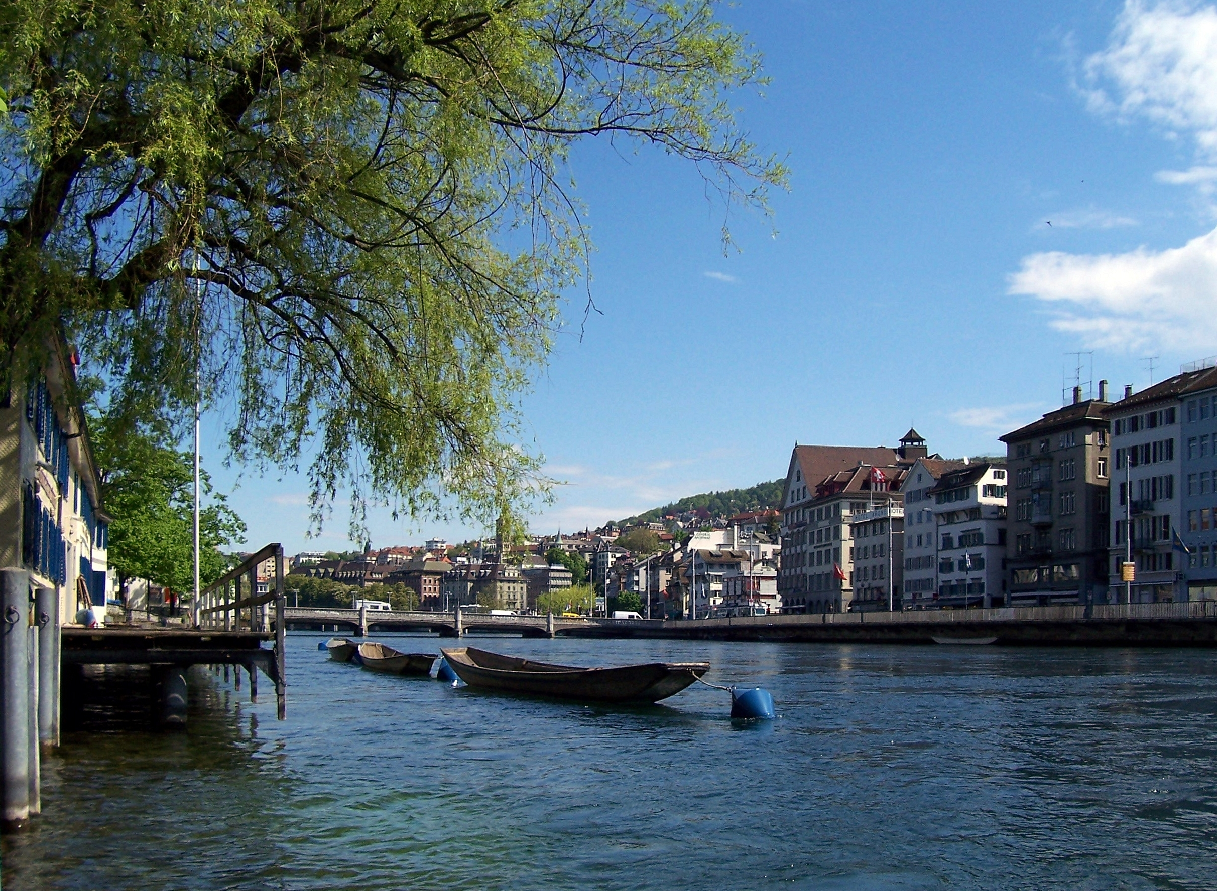 View of the Limmat River in Zürich from a small boat deck.